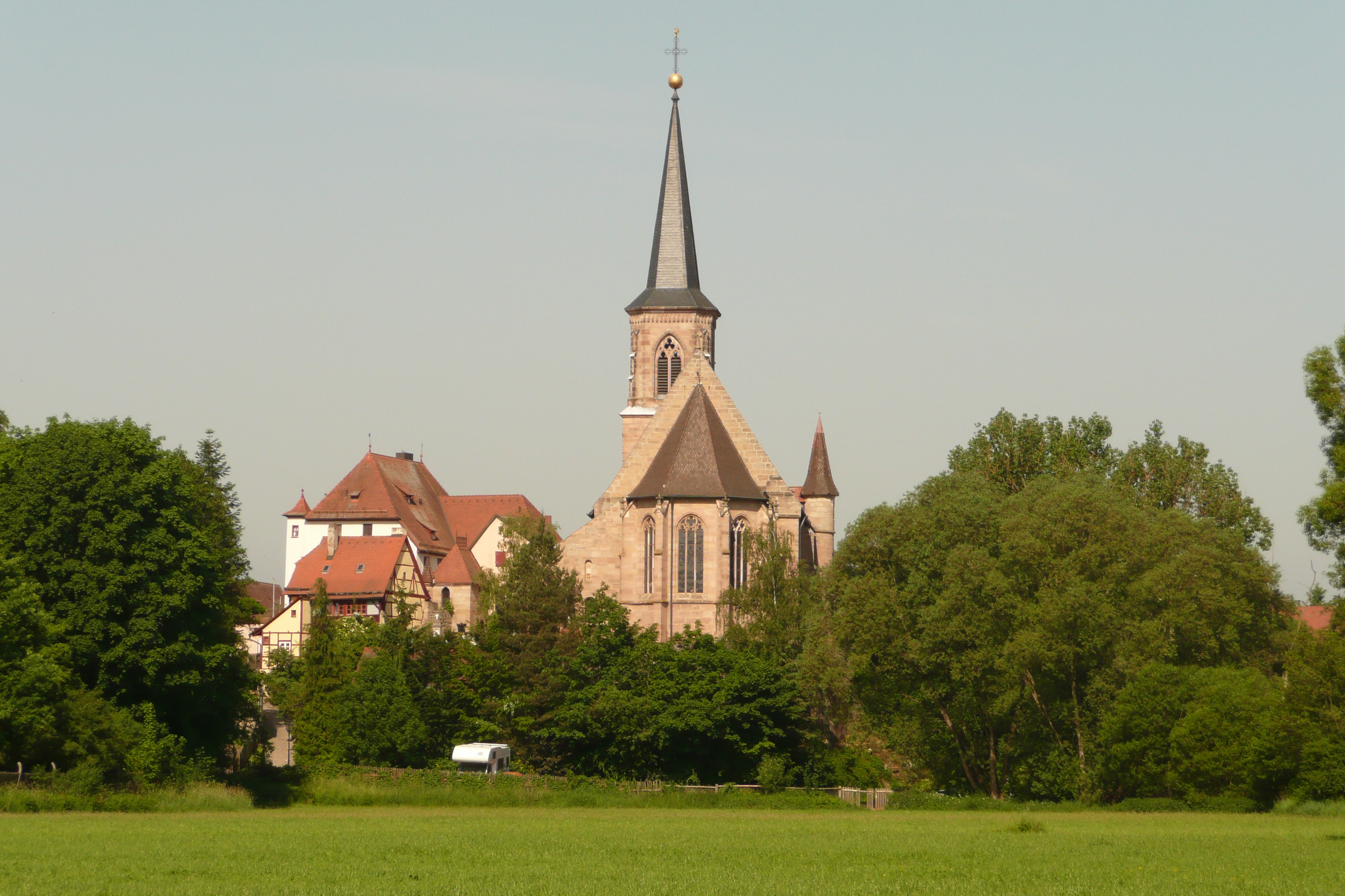 East side of Wendelstein, Germany